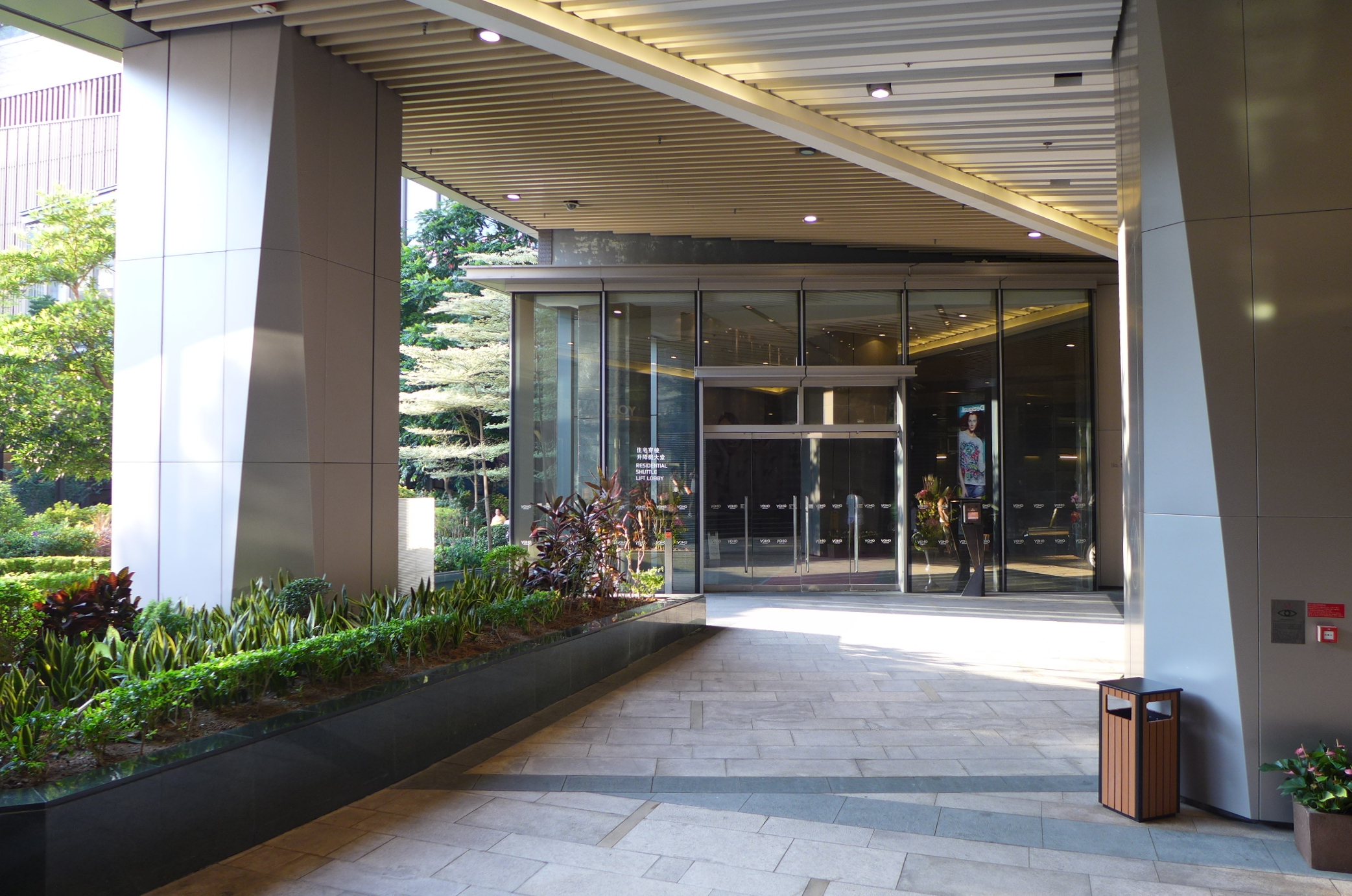 Yoho Midtown Residentional GF Lobby